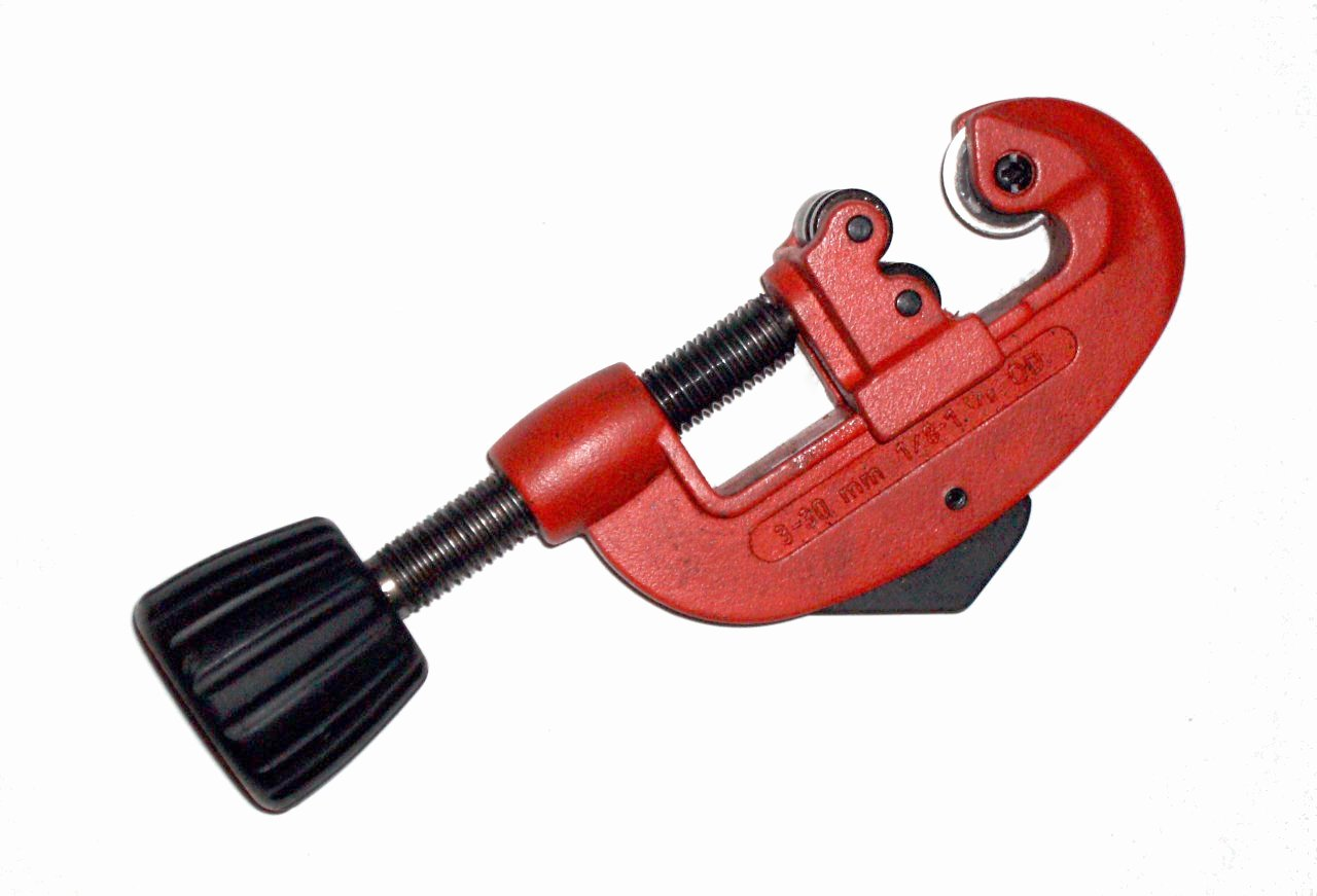 Pipecutter